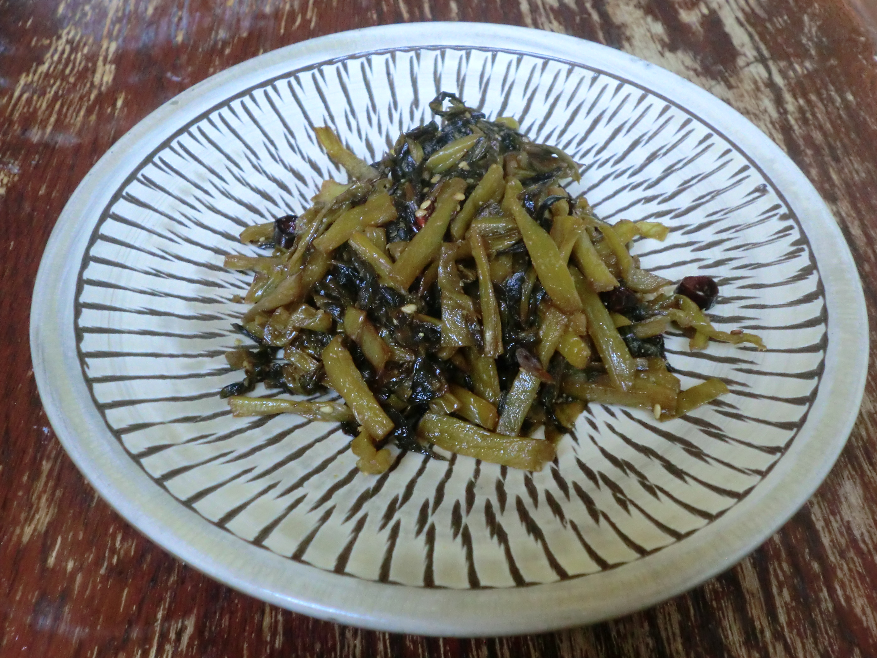 Stir-fried Takana pickle. It is famous especially in Kyushu area,Japan.